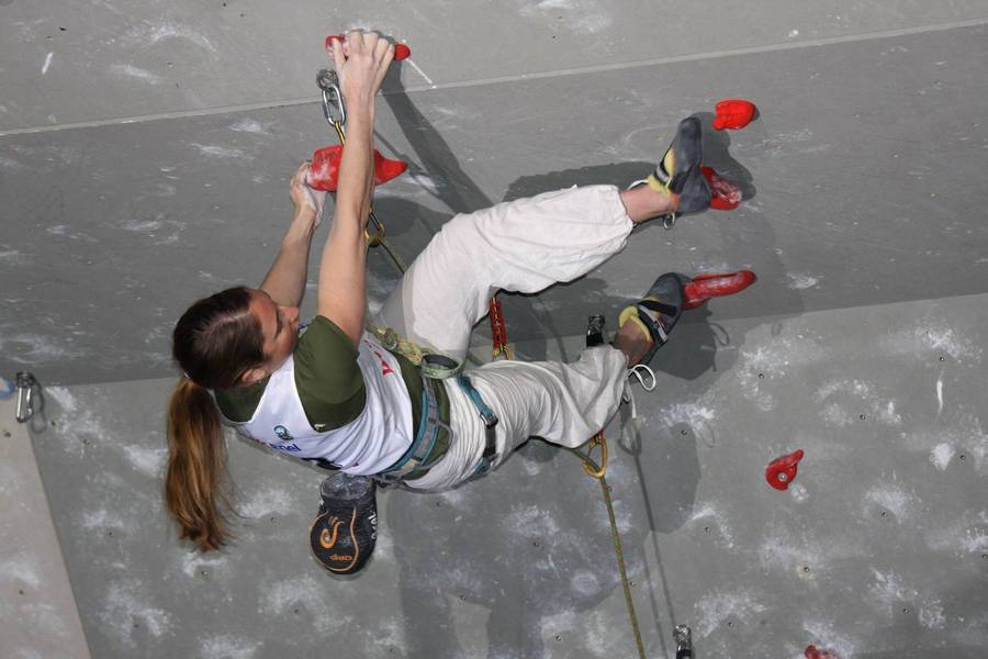 Martina Čufar at the 2010 Winter Military World Games